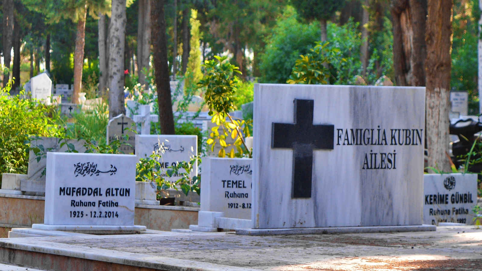 Mersin Şehir Mezarlığı, Hristiyan ve Müslüman mezarları.